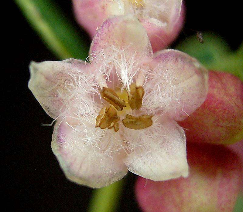 Symphoricarpos albus